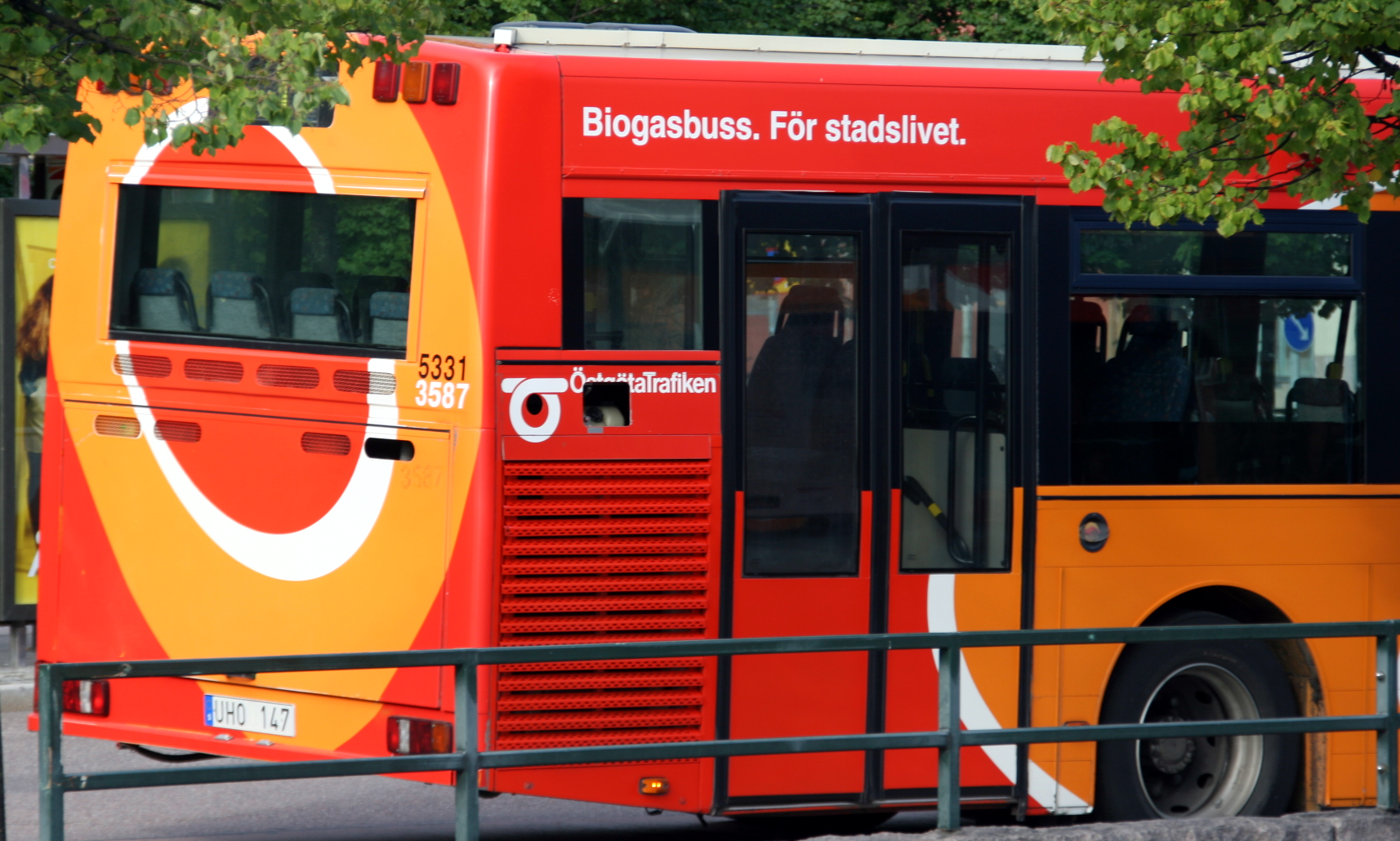 Biogas bus in the city of Linkoping, Sweden